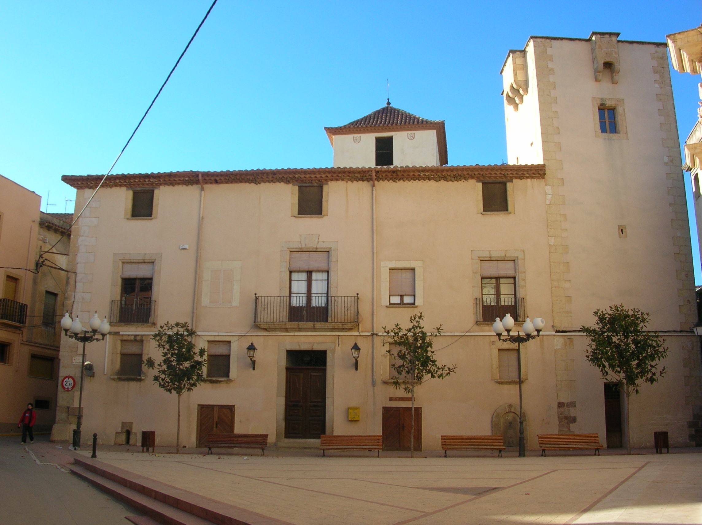 Town Hall of the small village "Vinyols i els Arcs" in Catalonia.